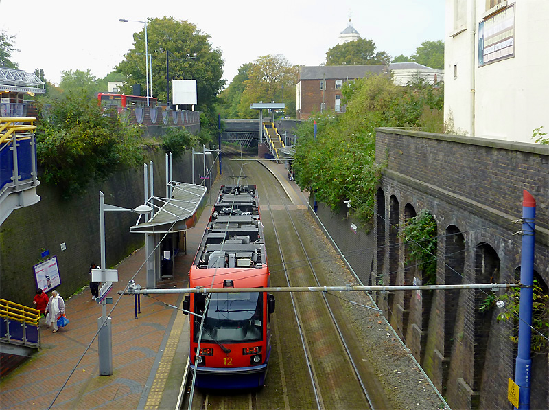 This is Bilston Central tram stop seen from Hall Street Bridge. The tram waiting at platform two is destined for Wolverhampton St George's. The bus station is adjacent at road level on the left. The Midland Metro opened on 30th May 1999.It is 12½ mile tram-line between Wolverhampton and Birmingham with a short on-street section in Wolverhampton, the rest following the former Great Western Railway trackbed (closed in 1972). The trams are powered by 750 volt DC electric current supplied though overhead power cables.